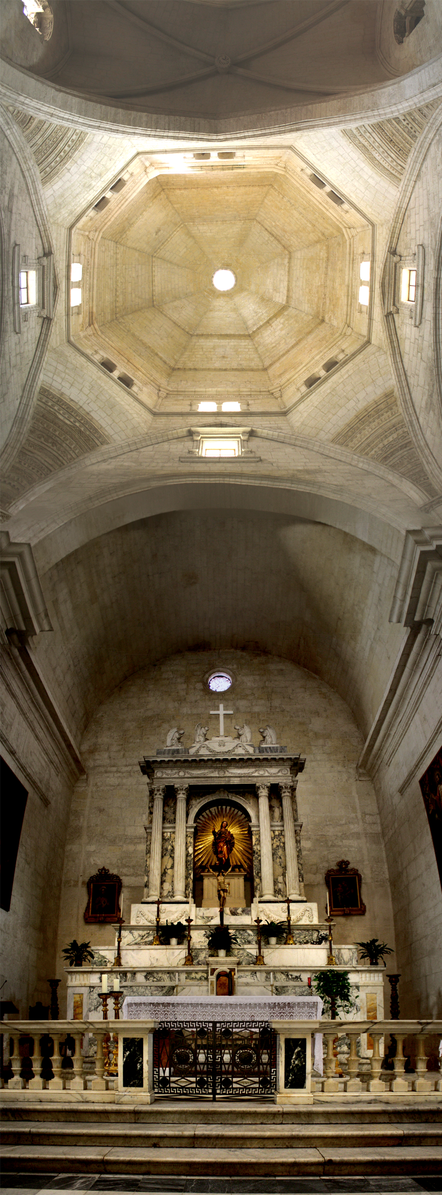 High Altar and dome